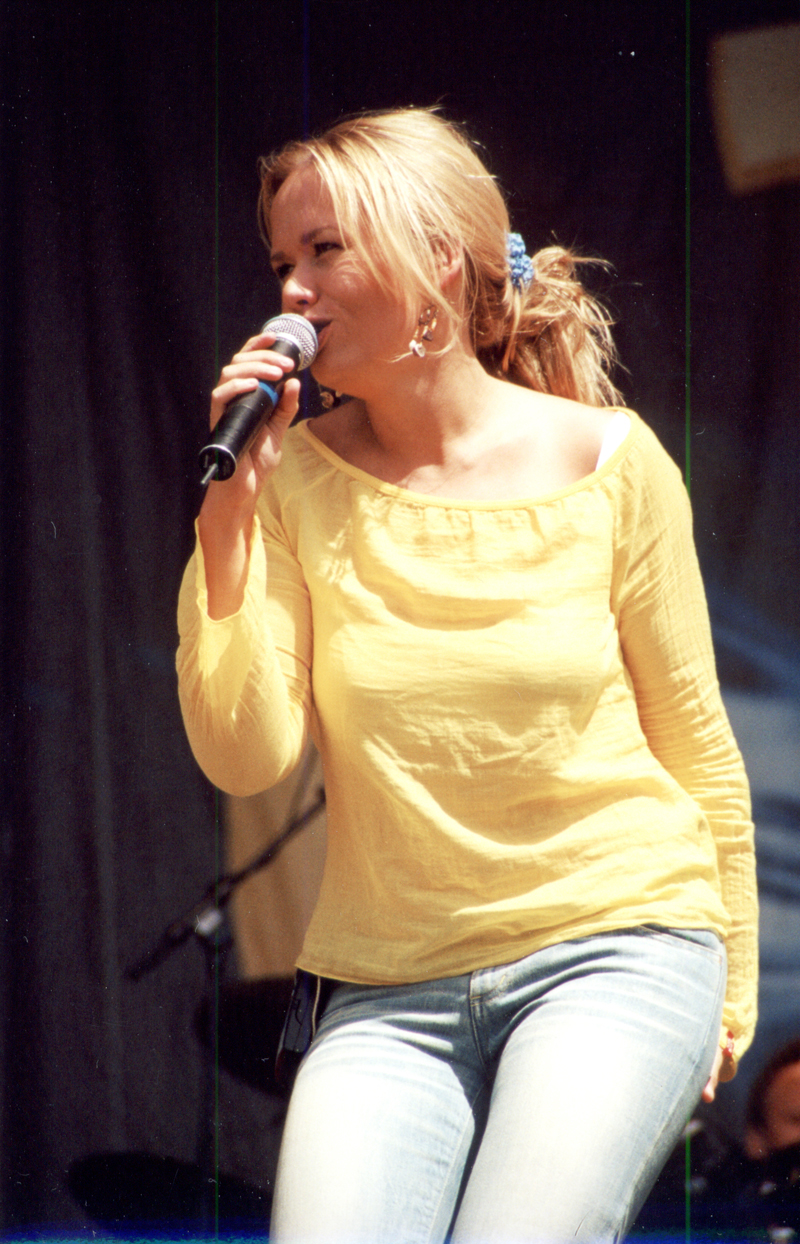 Trine Jepsen from a concert with eyeQ. Copyright: I hereby state that i'm the creator of this photographic work, and that it is uploaded to Wikipedia under GFDL with my knowledge. Philip Meisner